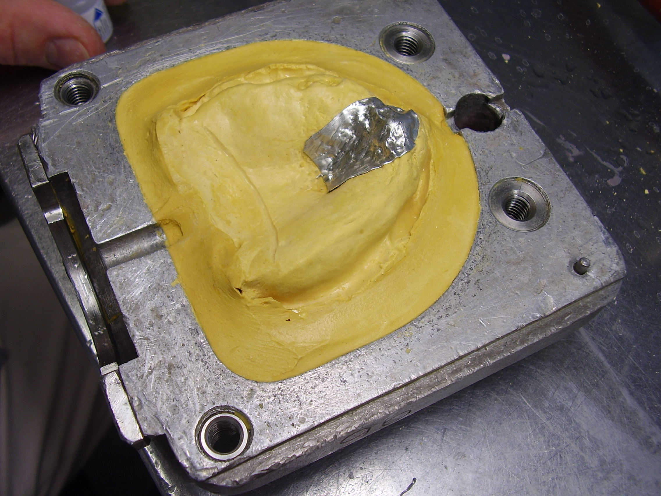 making of complete denture